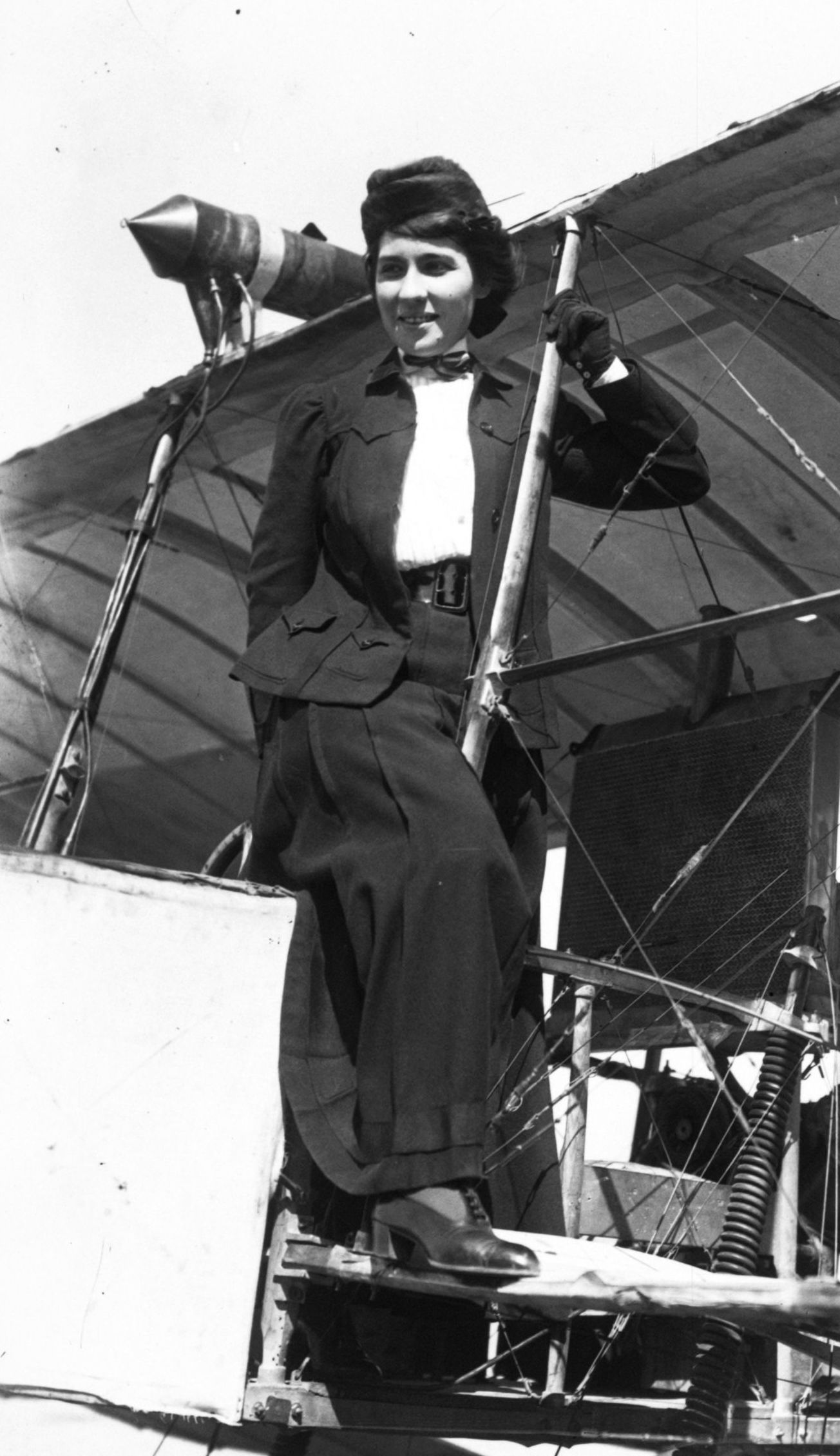 French sculptress and aviator Thérèse Peltier (1873-1926) on a Delagrange airplane at Issy-les-Moulineaux near Paris on 17 September 1908